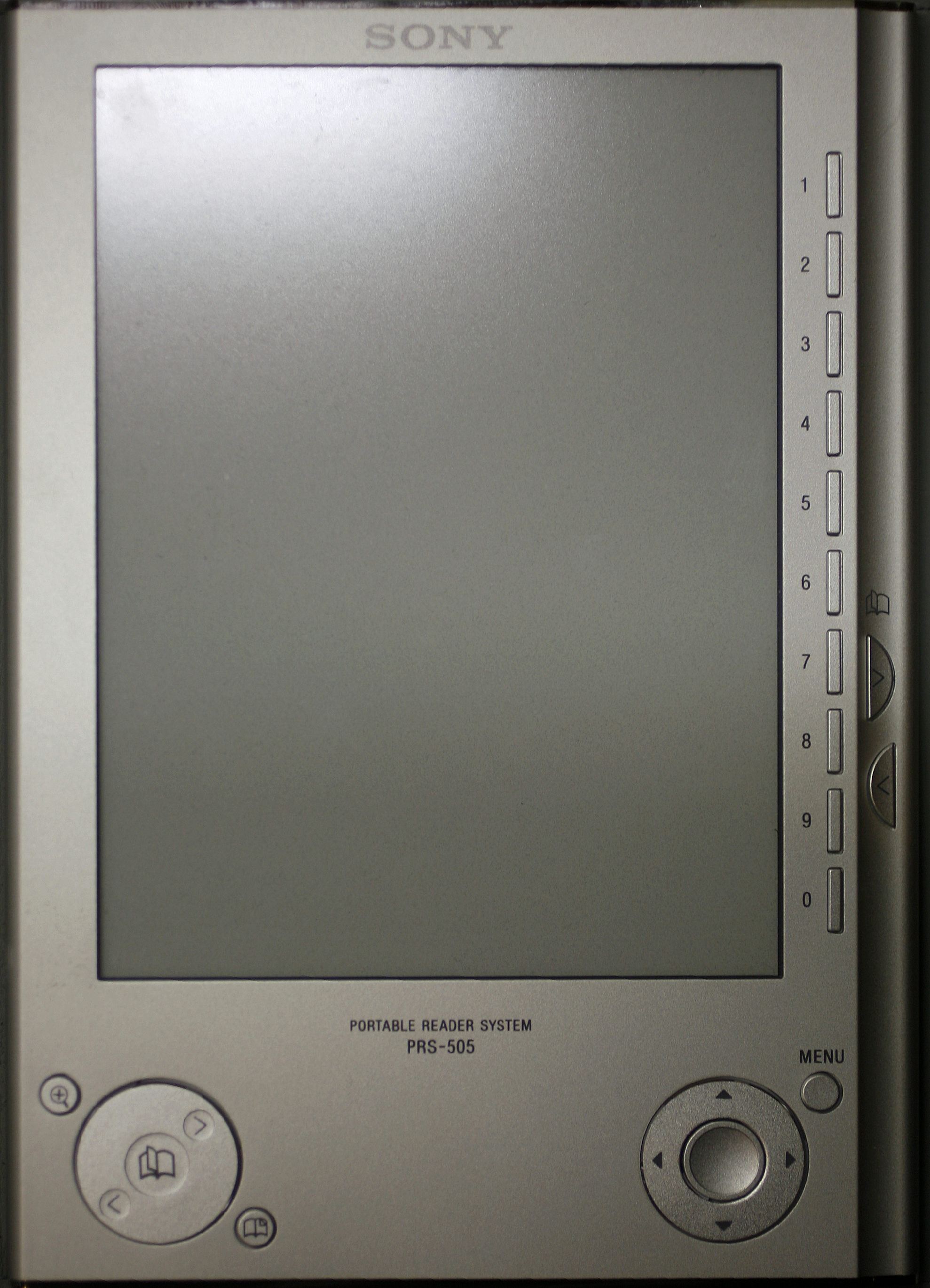 Sony PRS-505 reader